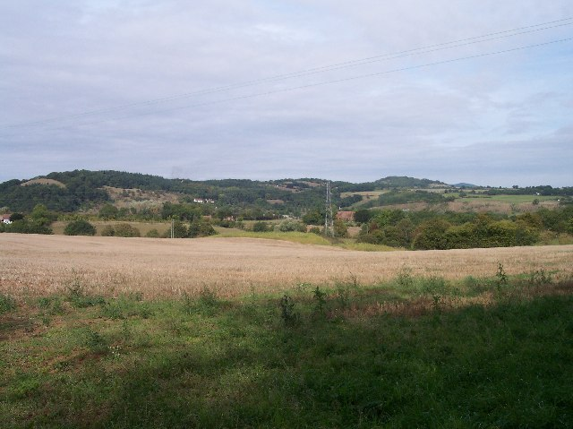 View north across the Teme valley to Ankerdine Hill, Wrocestershire. St Giles' House (formerly St Giles' Church), Lulsley, is just to the right of the electricity pylon in the centre of the picture. Ankerdine Hill is on the left in the distance.